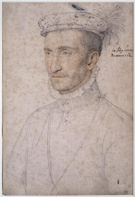 Portrait of Henri d'Albret, king of Navarre